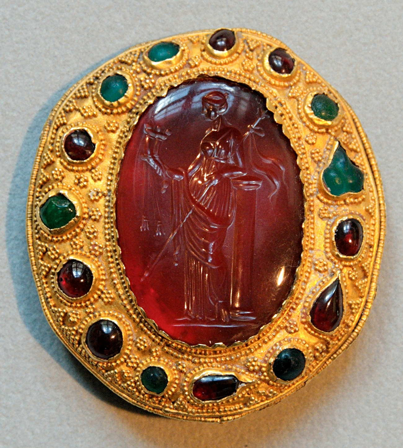 Carnelian intaglio with a Ptolemaic queen holding a sceptre, early 1st century BC; gold, garnet,emerald and glass paste mount, 1724.